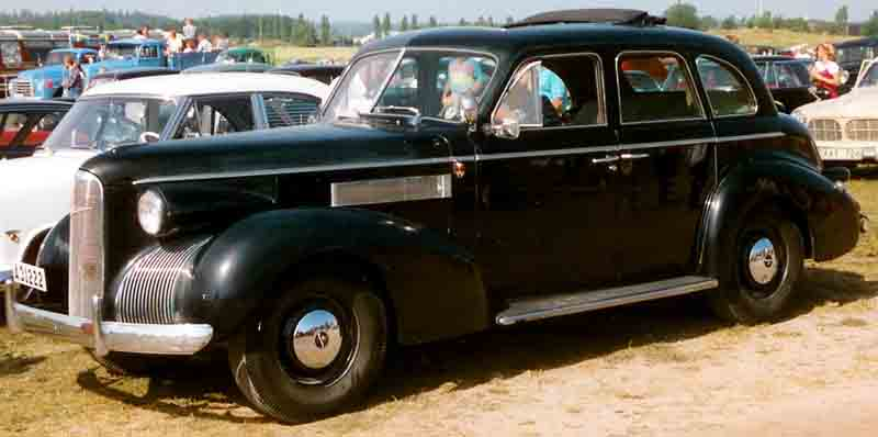 La Salle Series 39-5019 4-Door Touring Sedan 1939